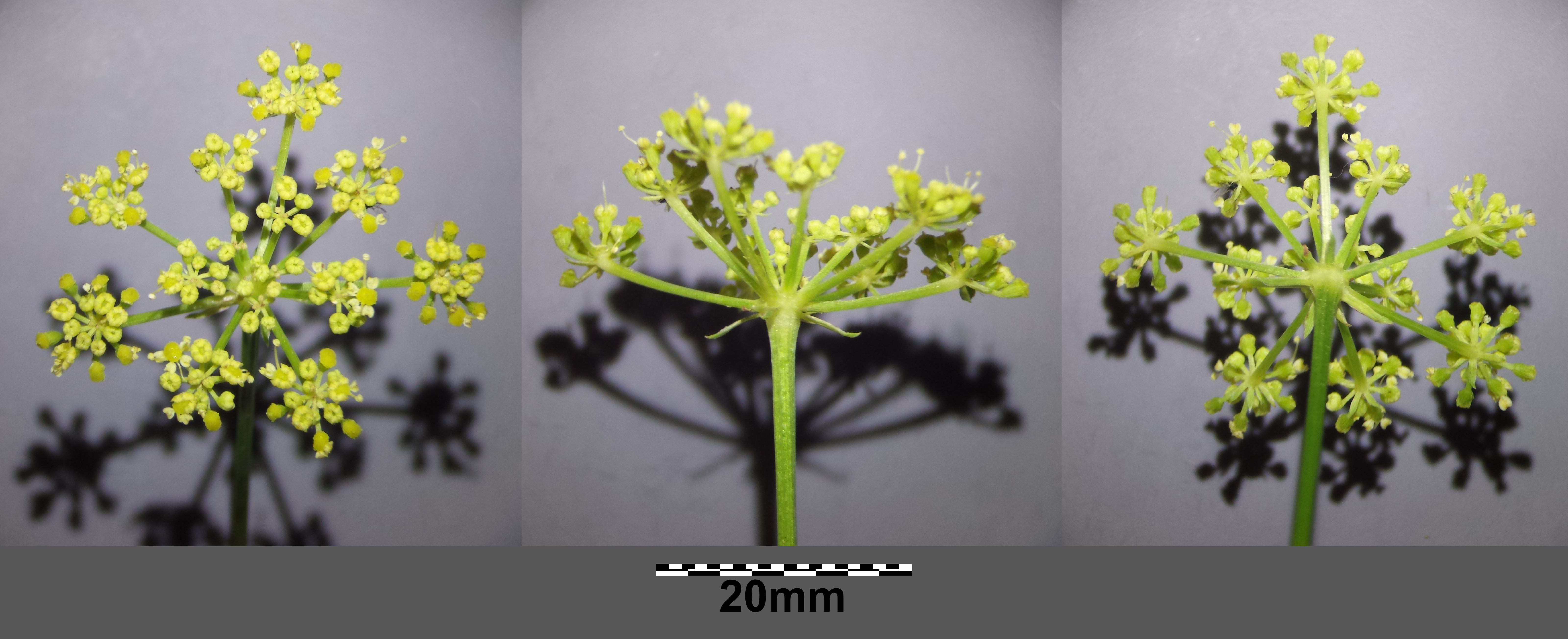 Umbel Taxonym: Peucedanum alsaticum ss Fischer et al. EfÖLS 2008 ISBN 978-3-85474-187-9 Location: Steinberg near Niederhollabrunn, district Korneuburg, Lower Austria - ca. 375 m a.s.l. Habitat: semi-dry grassland